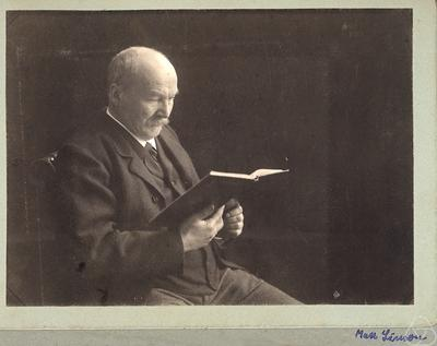 On the Photo: Simon, Maximilian (?) Annotation: From a photo album of the Mathematische Gesellschaft (Hamburg)